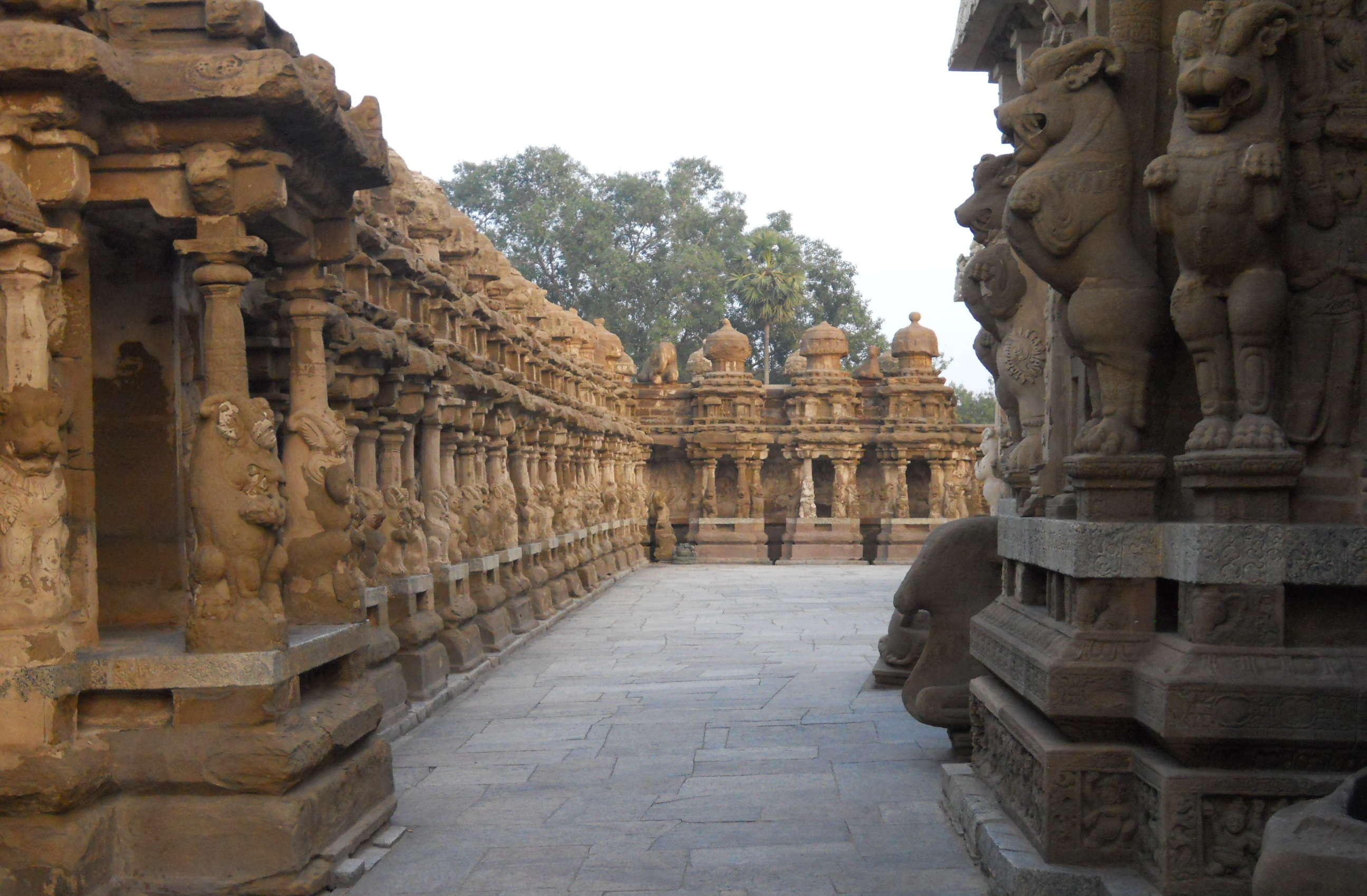 Kanchi_Kailasanathar_Temple left side path Kanchi_Kailasanathar_Temple